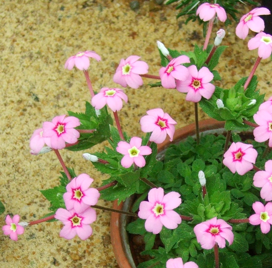 Dionysia involucrata Location: University of Oxford Botanic Garden